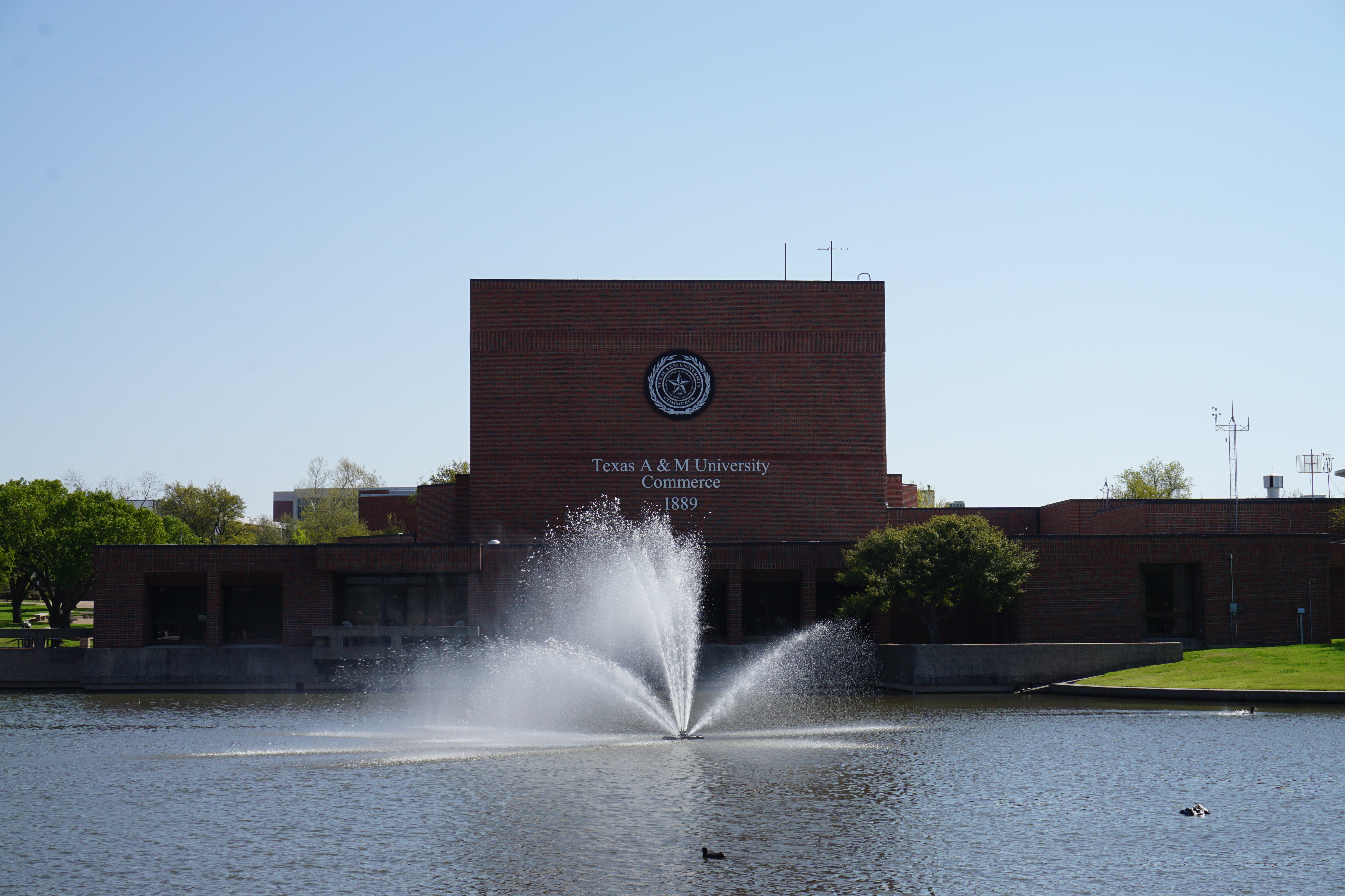 Gee Lake and the Performing Arts Center on the campus of Texas A&M University–Commerce in Commerce, Texas (United States).